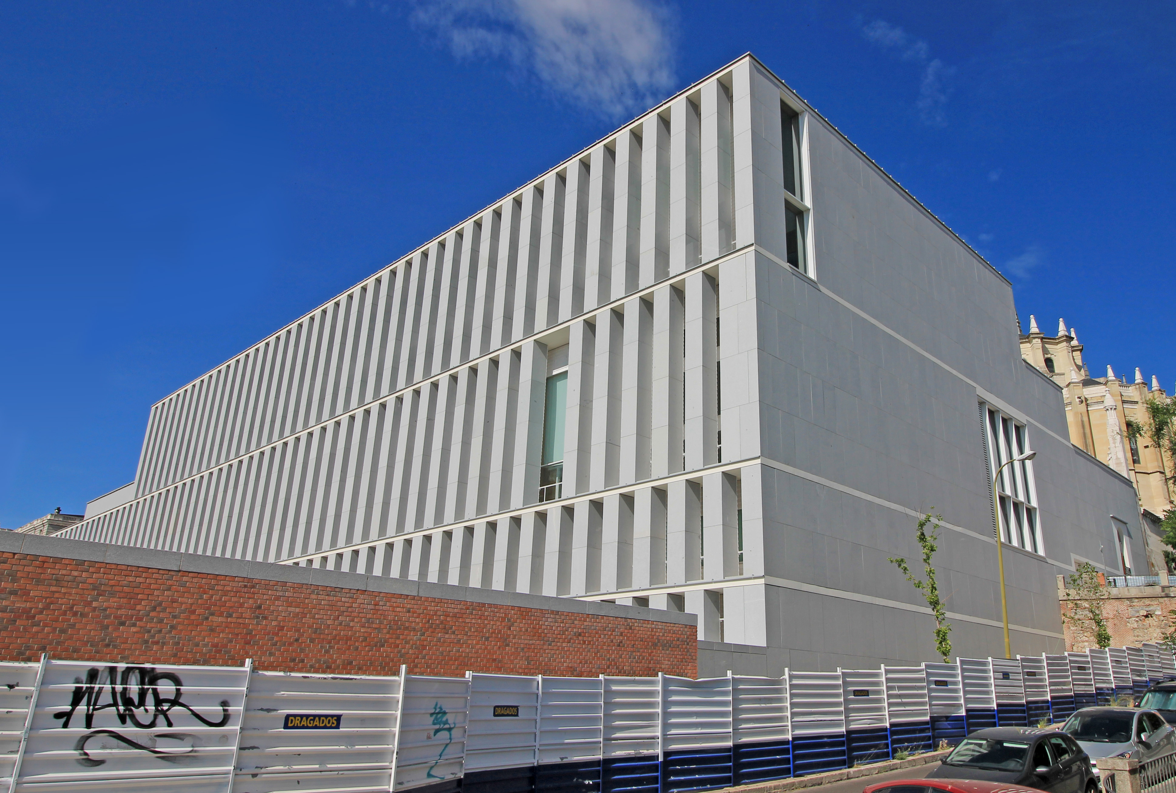 Façade of the Museum of Royal Collections in Madrid (Spain).